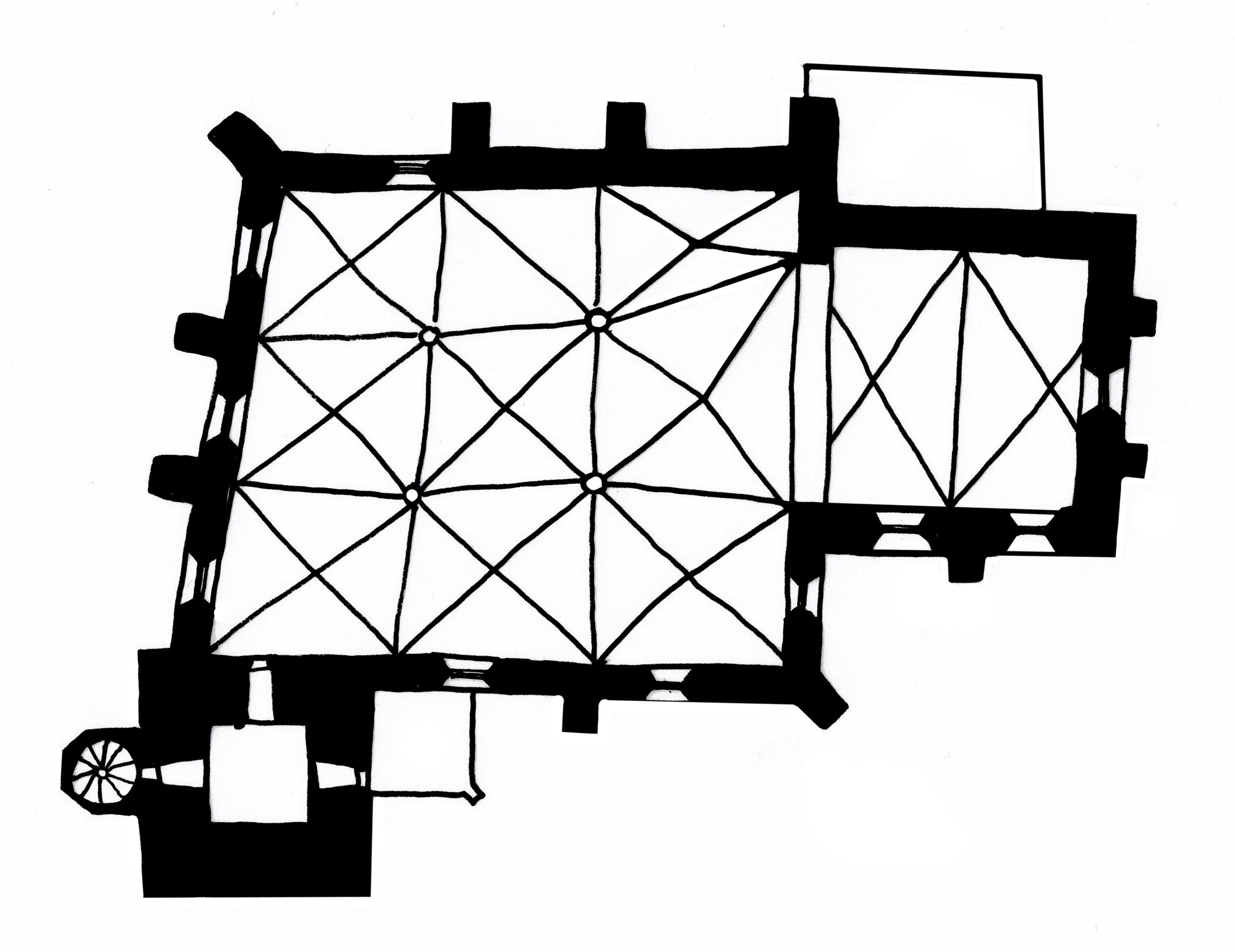 Kostel sv. Jana Křtitele, Dvůr Králové nad Labem